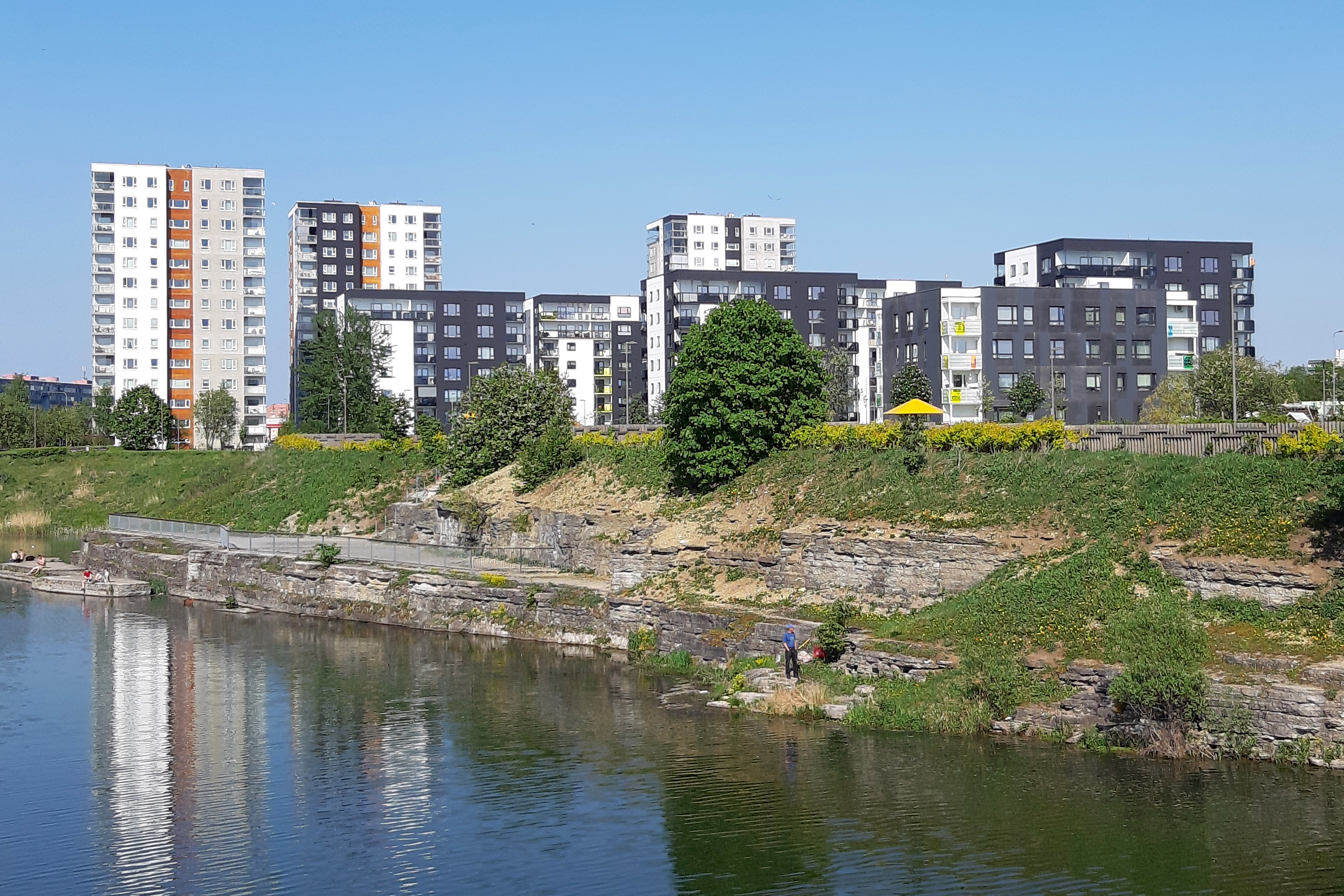 Sikupilli subdistrict, Lasnamäe district, Tallinn